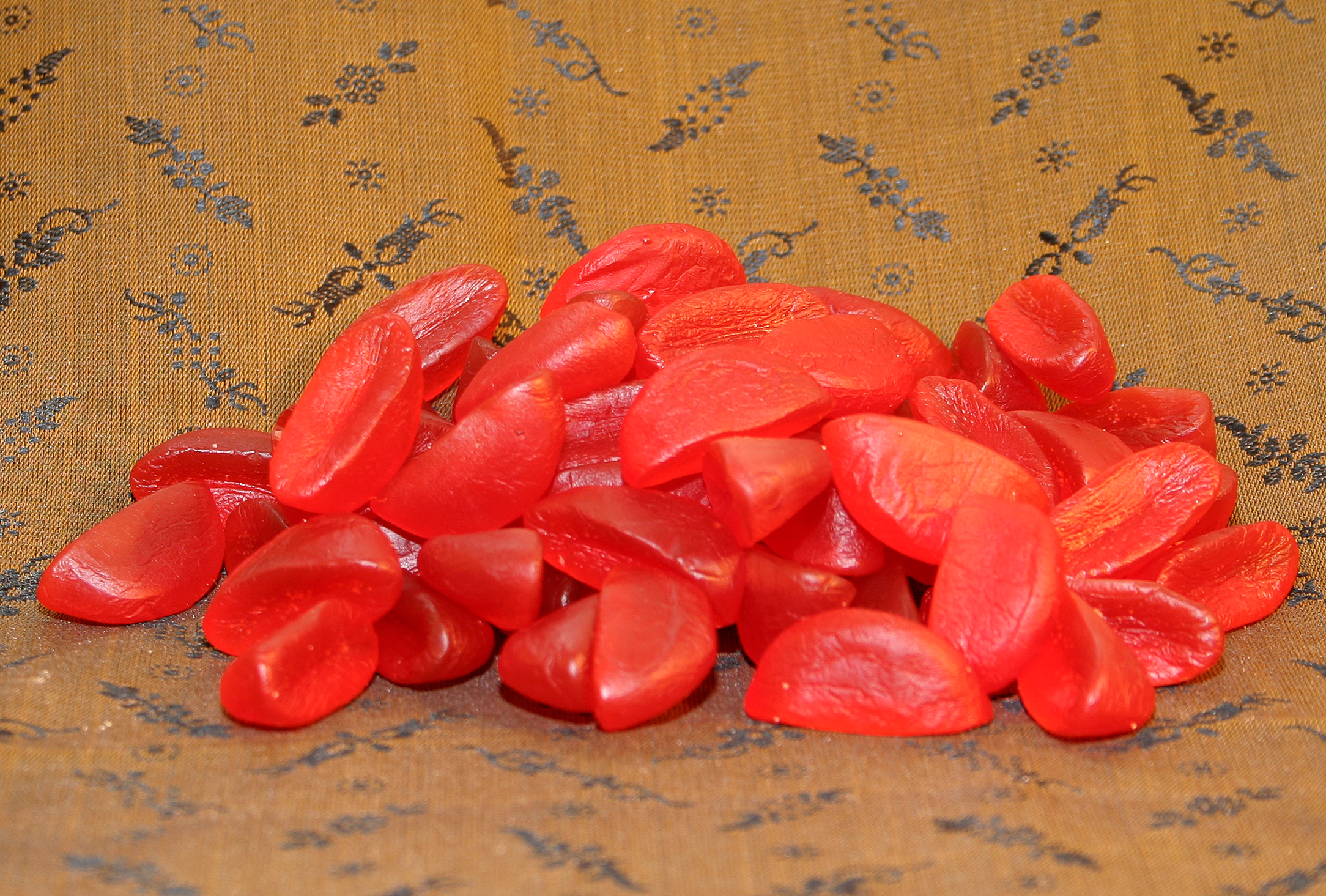 "Pimpim" candy from Malaco candy brand